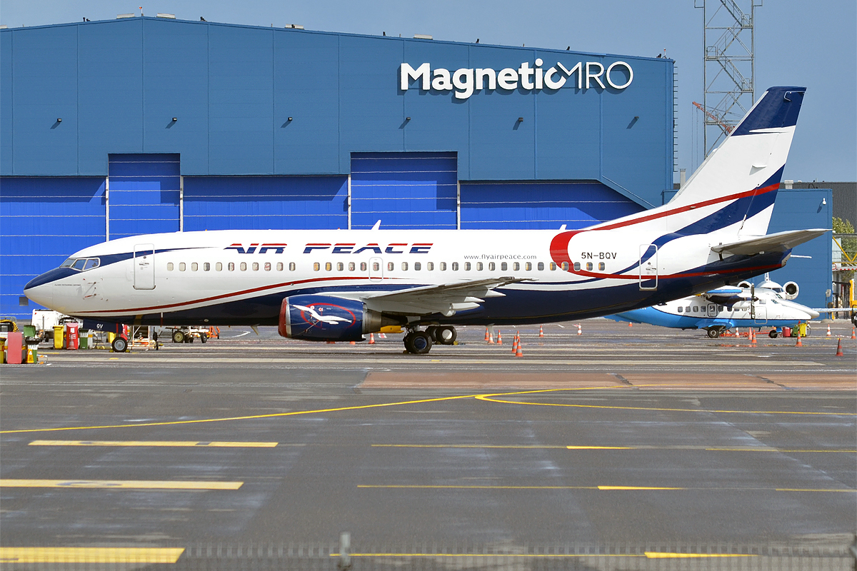 Air Peace, 5N-BQV, Boeing 737-33V